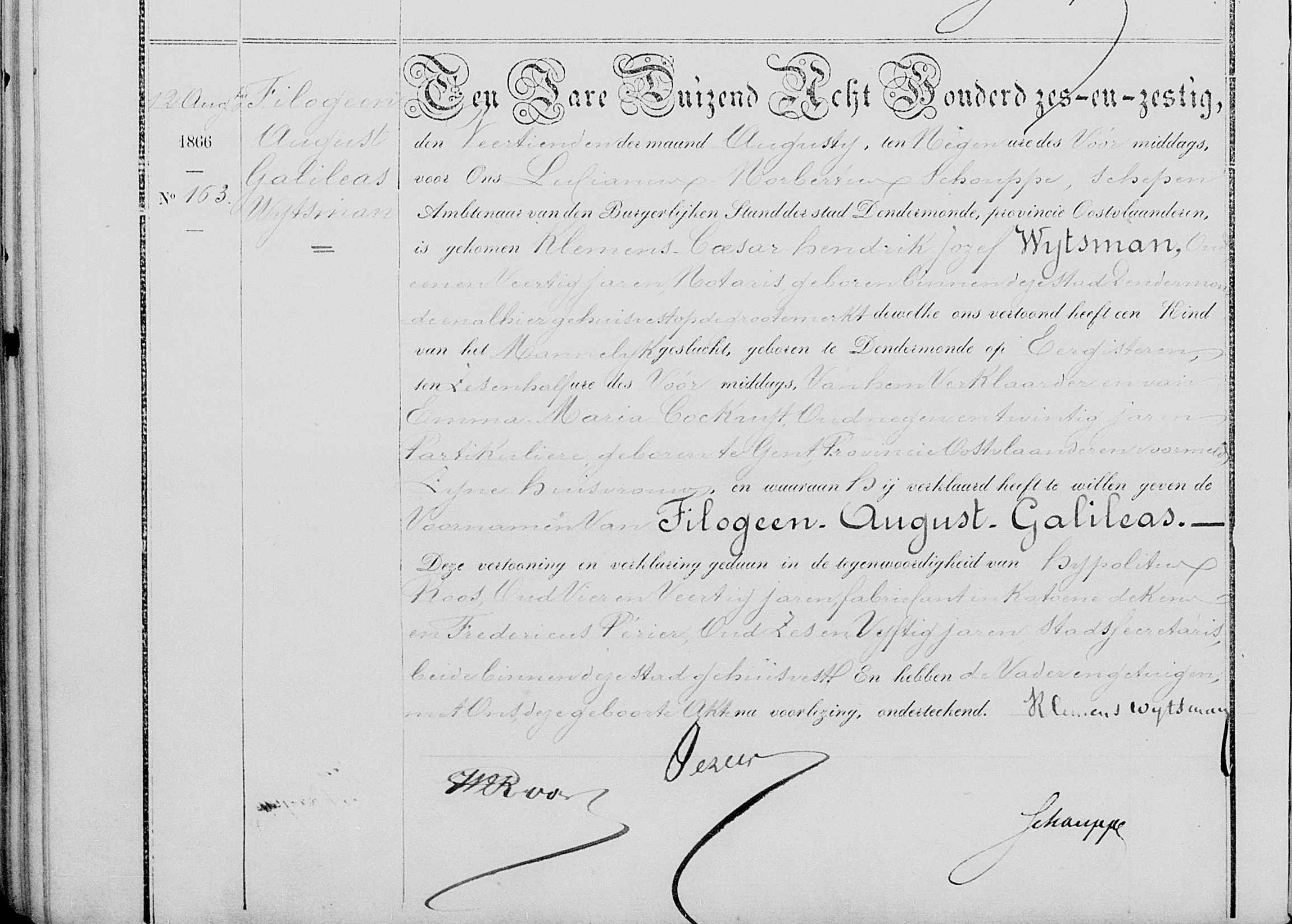 Philogène Auguste Galilée Wytsman